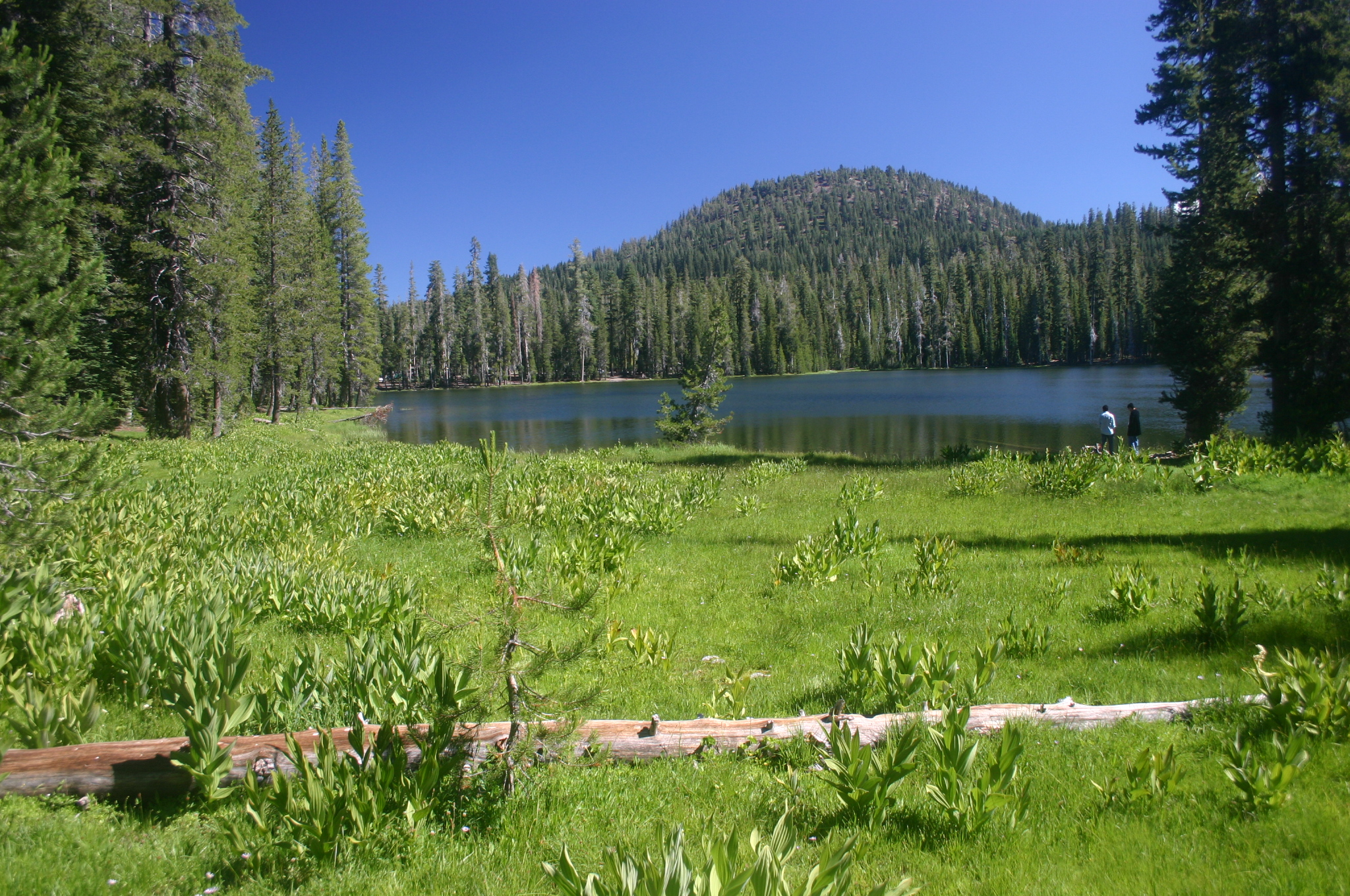 Lush vegetation around Summit Lake, with a fallen log lying at the front.